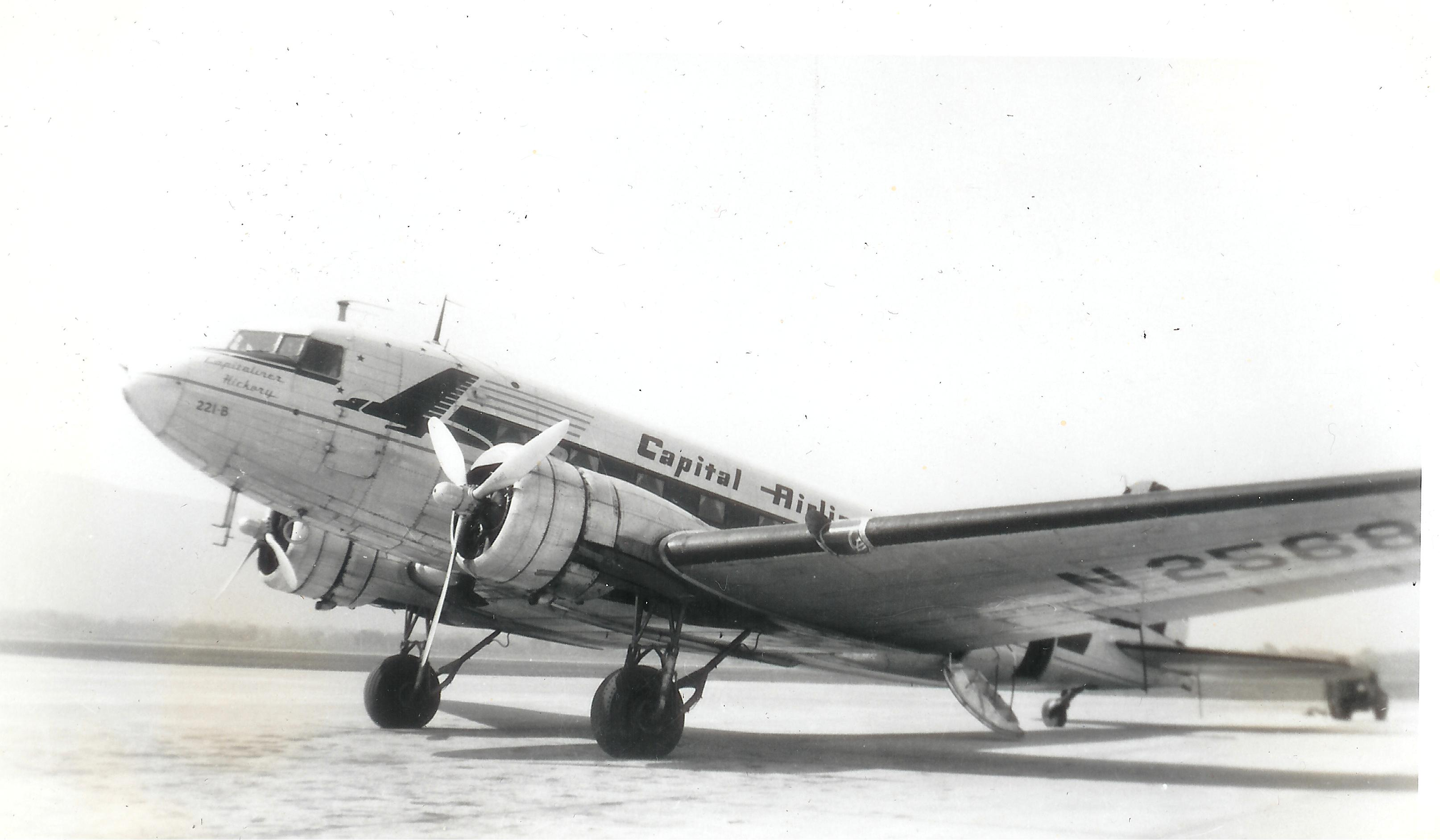 A Capital Airlines DC-3 at Williamsport Municipal Airport in 1952.